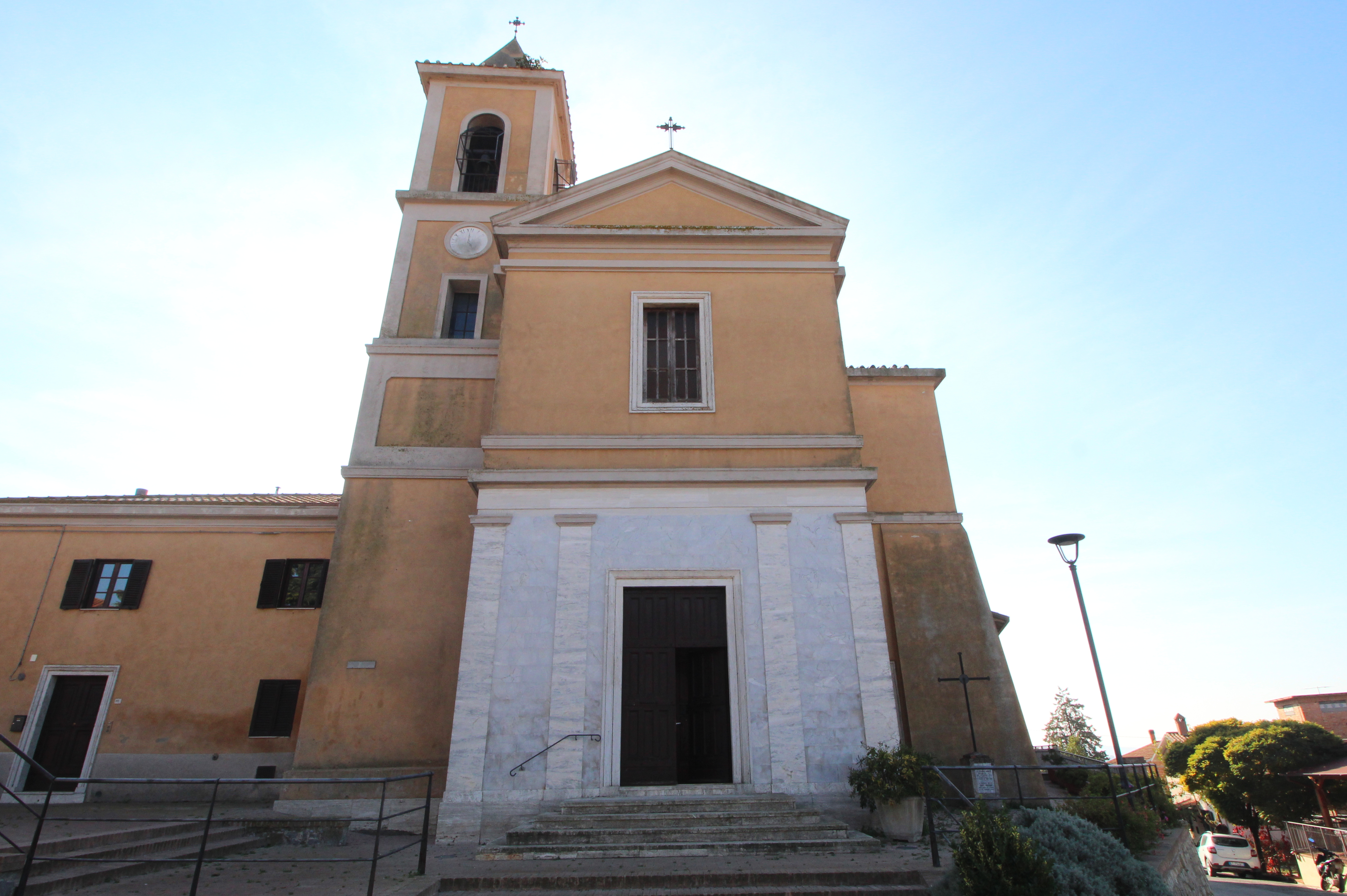 Church Sant'Egidio, Vaiano, hamlet of Castiglione del Lago, Province of Perugia, Umbria, Italy